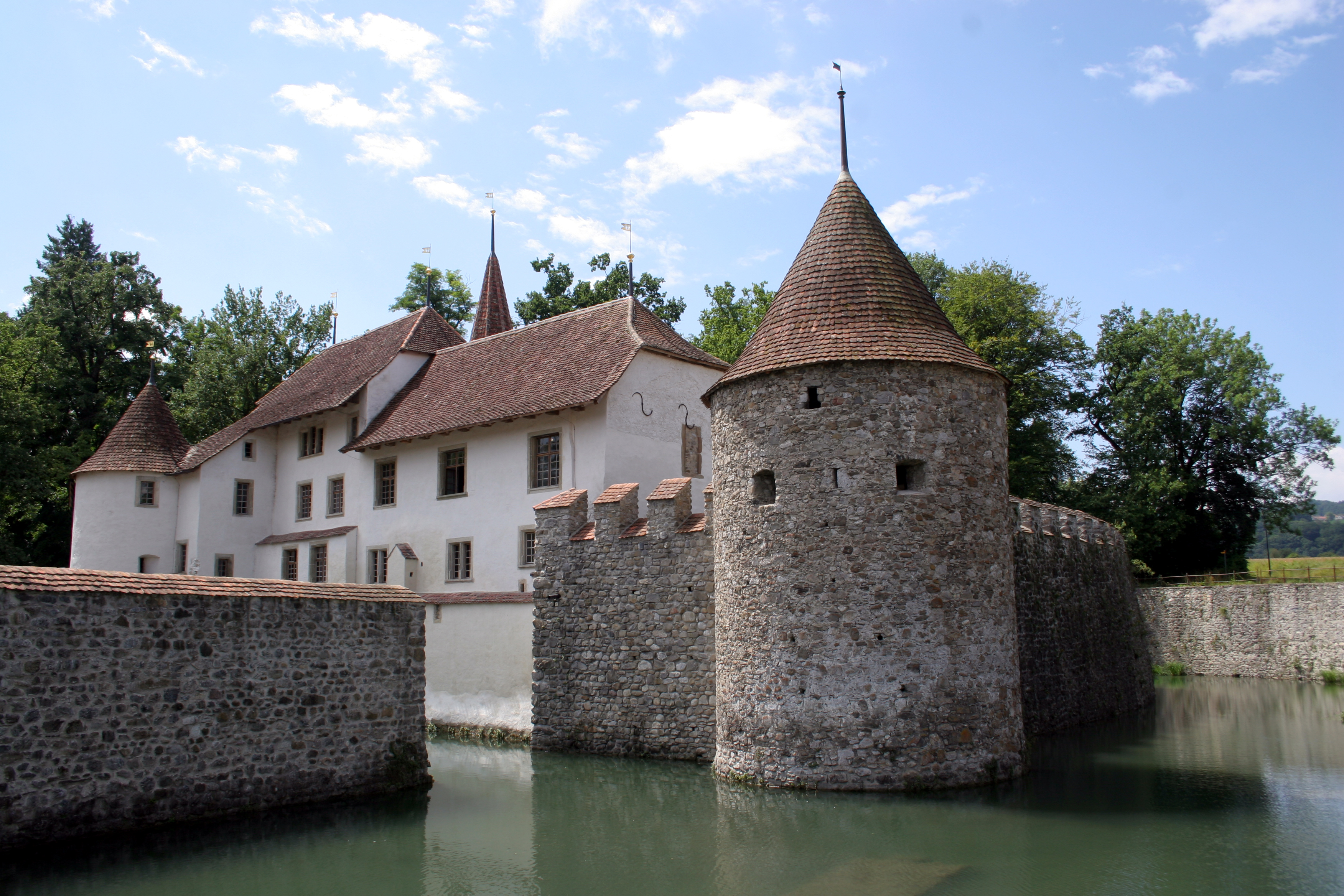 Castle of Hallwyll, Seengen, Aargau, Switzerland in July 2005.